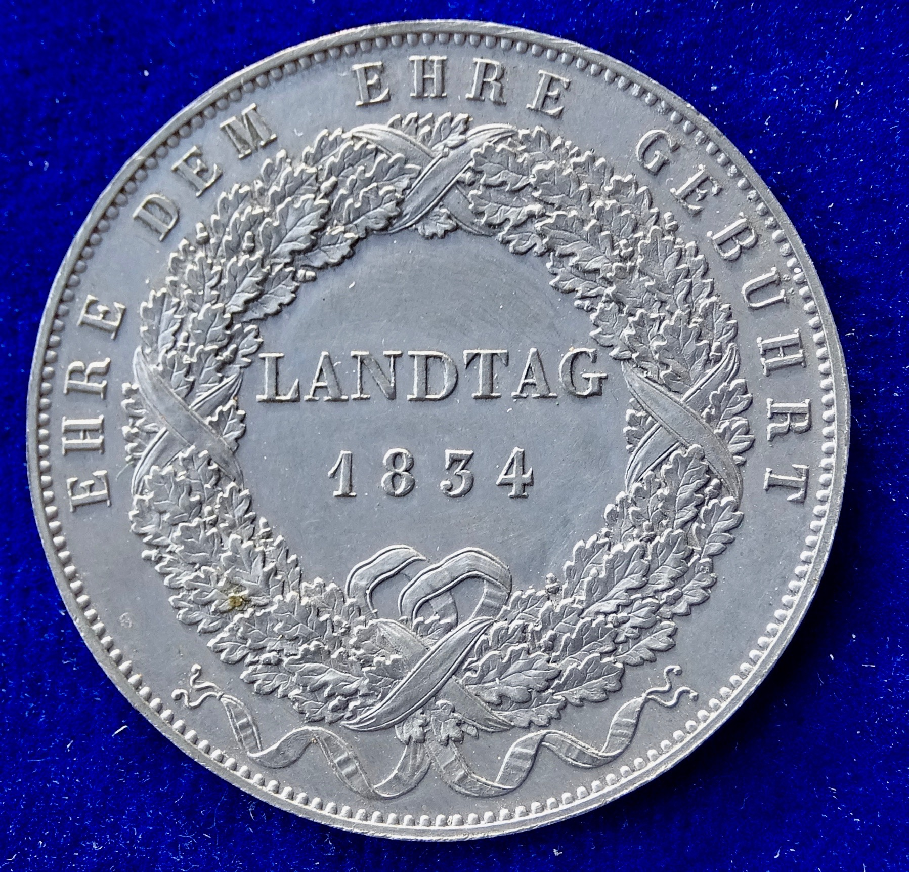 Bavaria Thaler 1834, Diet of the Kingdom (Landtag), uniface Pb-Strike. D. = 38 mm. Ludwig I, King of Bavaria, 1825-1848 2 lines within wreath: "LANDTAG 1834". curved above: "EHRE DEM EHRE GEBÜHRT". AKS 130; Thun 63; Davenport 571; J. 45; KM 405. Medallist: Carl Friedrich Voigt, 1800 Berlin - Triest 1874 Condition: UNCIRCULATED.